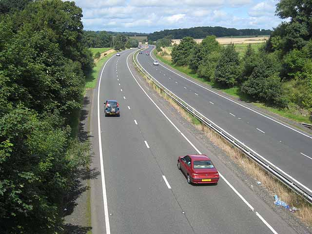 A69 at Thornbrough The main Newcastle to Carlisle road which is dual carriageway as far as Hexham.